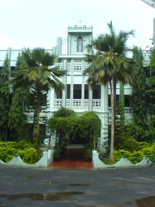 House for jesuit fathers resided in St Mary's Higher Secondary School, Dindigul